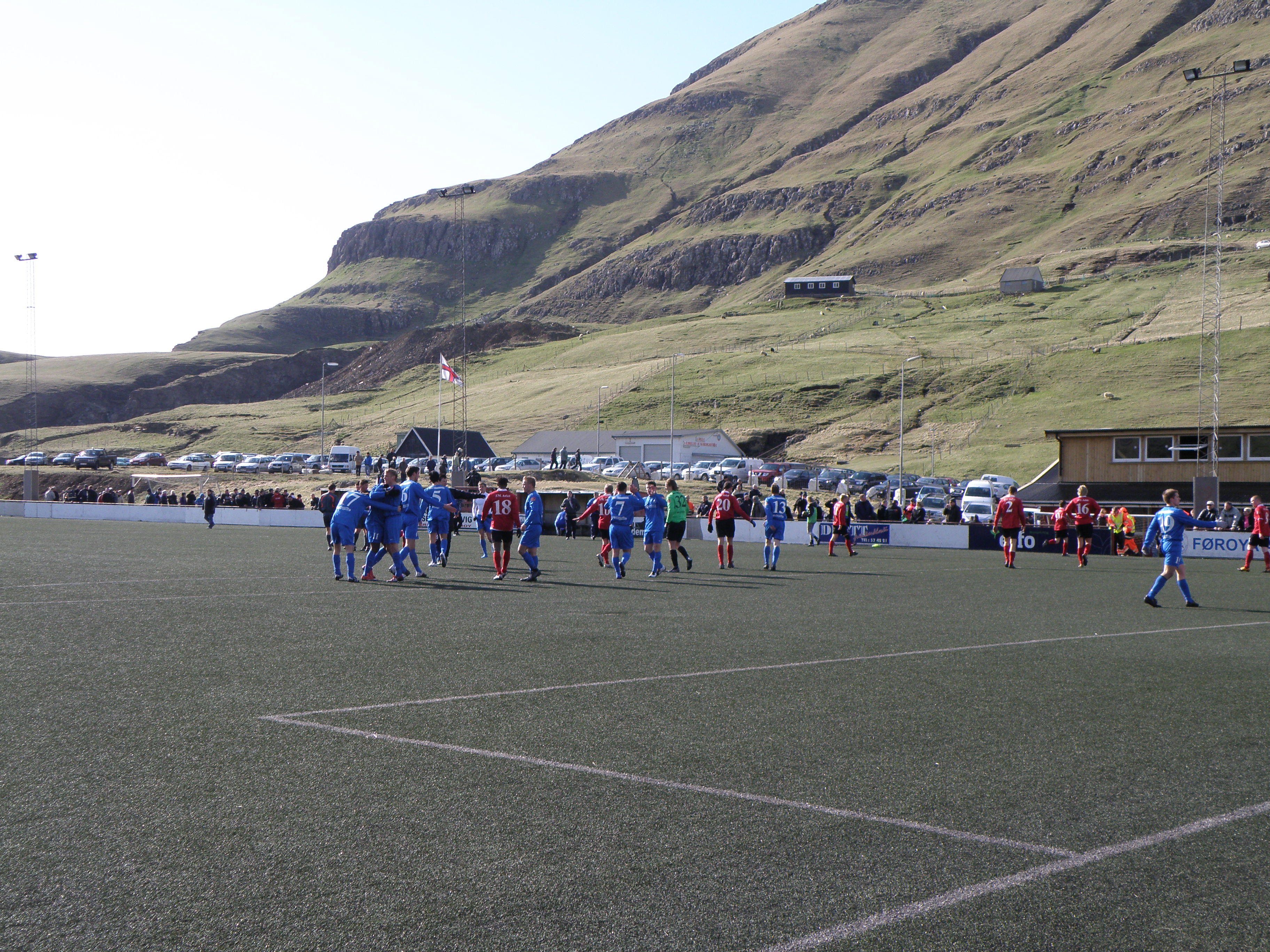 Fotball match in Vodafonedeildin (Faroese Premier League) between FC Suðuroy and B68 Toftir on Vesturi á Eiðinum Stadium in Vágur. This photo was taken just after the match, which was the FC Suðuroy's first winning match. FC Suðuroy won 3-1. Føroyskt: Myndin er tikin beint eftir dystin millum FC Suðuroy og B68 vesturi á Eiðinum í Vági 18. apríl 2010. FC Suðuroy vann dystin 3-1, tað var fjórði dystur, sum teir spældu og fyrstu ferð teir vunnu ein dyst eftir at teir skiftu til navnið FC Suðuroy. Áðrenn 2010 æt fótbólsfelagið VB/Sumba. Tað vóru Obi Charles og Jón Krosslá Poulsen sum skoraðu málini hjá FC Suðuroy.